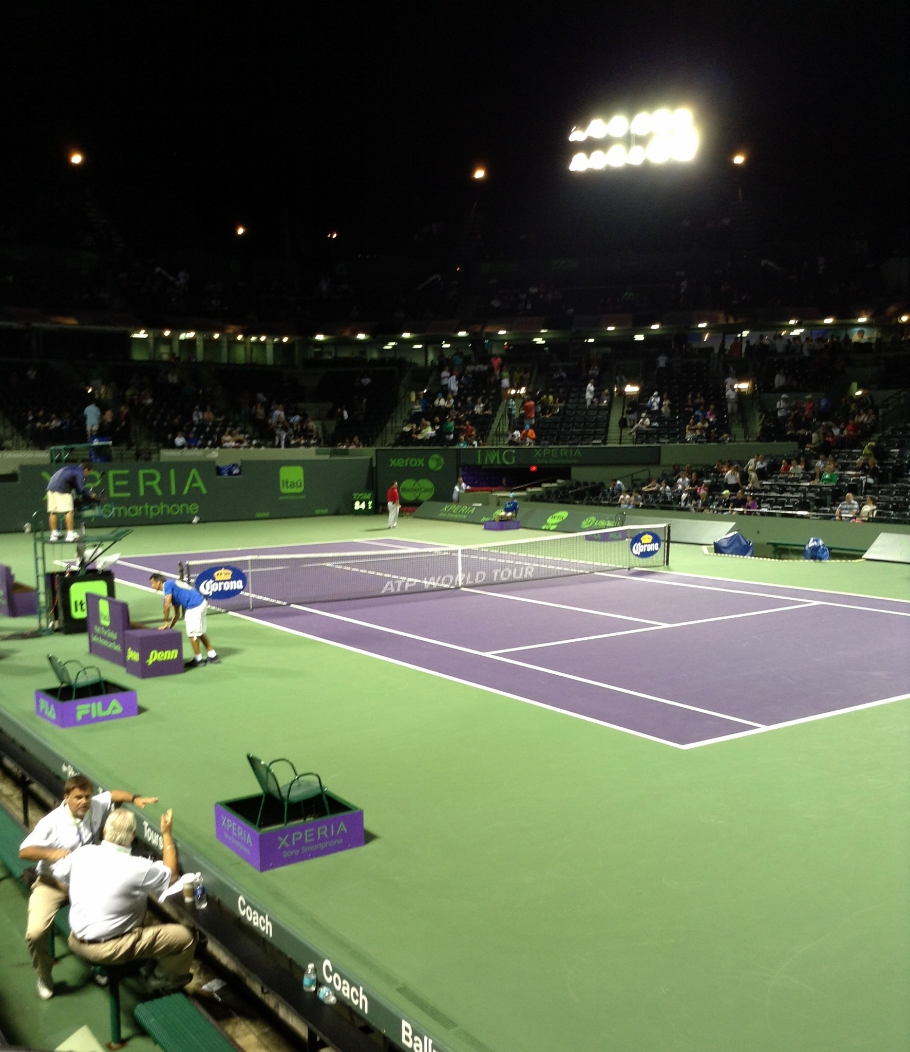 The Main Court of the Sony Erickson Open prior to the James Blake - Ryan Harrison game on March 20, 2013.